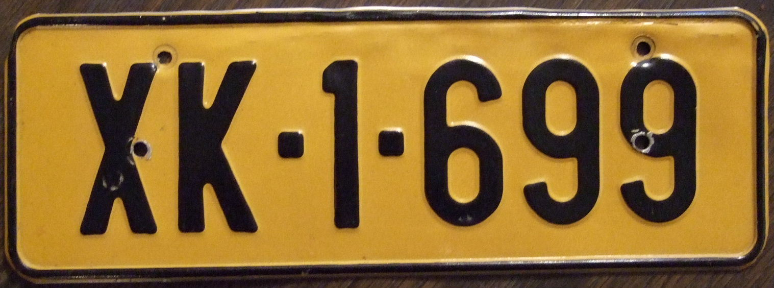 License plate from Transkei homeland, South Africa, 1976.